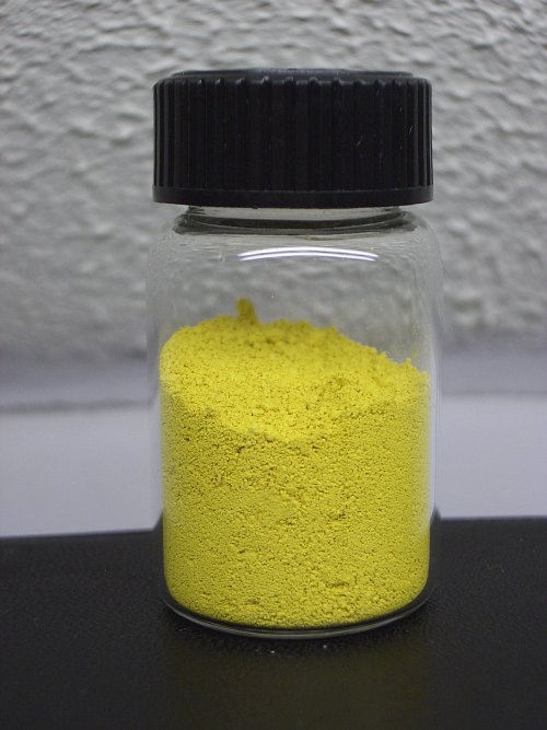 Potassium hexanitritocobaltate(III) monohydrate, according to the source